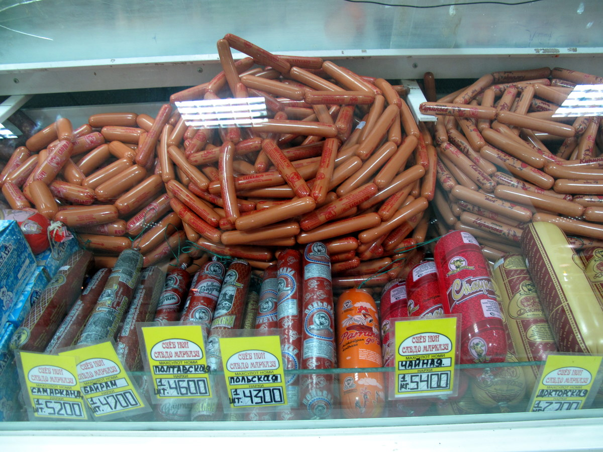 i remember such links from back in the USSR days. there wasn't red ink on the plastic wrapping and there was always much concern about the dangers of us kids suffocating on one incidentally.